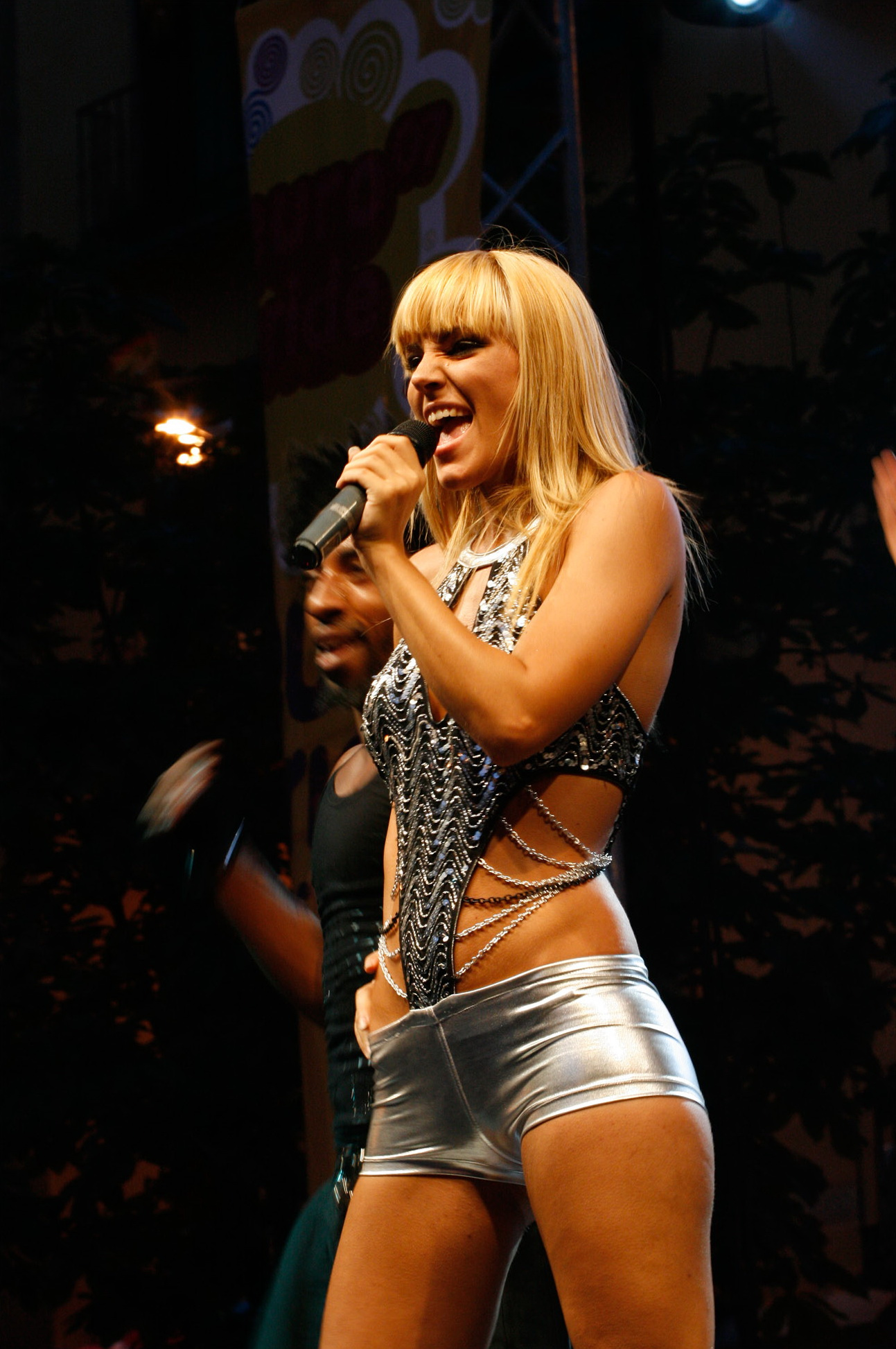 Spanish singer Edurne